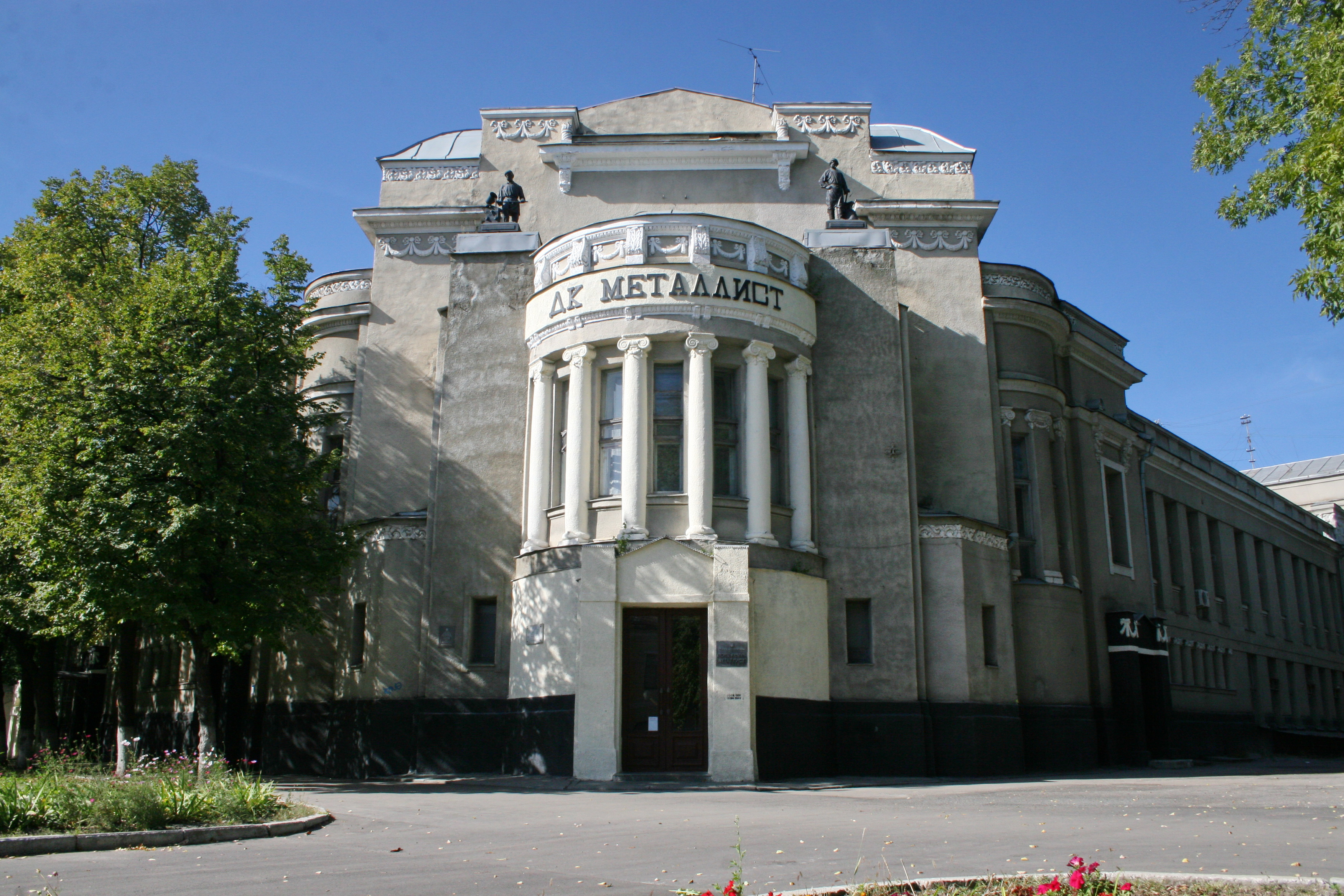 Workers palace (now the Palace of Culture "Metalist")